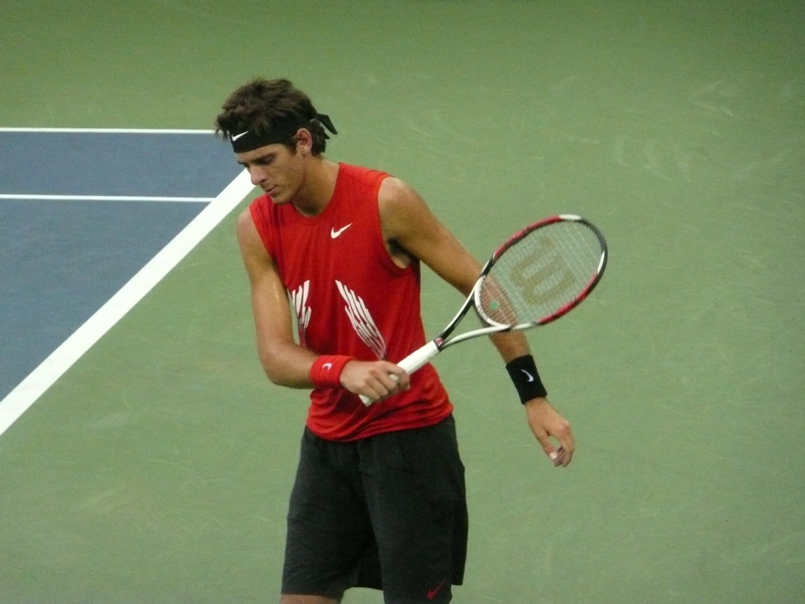 Juan Martin del Potro against Gilles Simon at the 2008 US Open